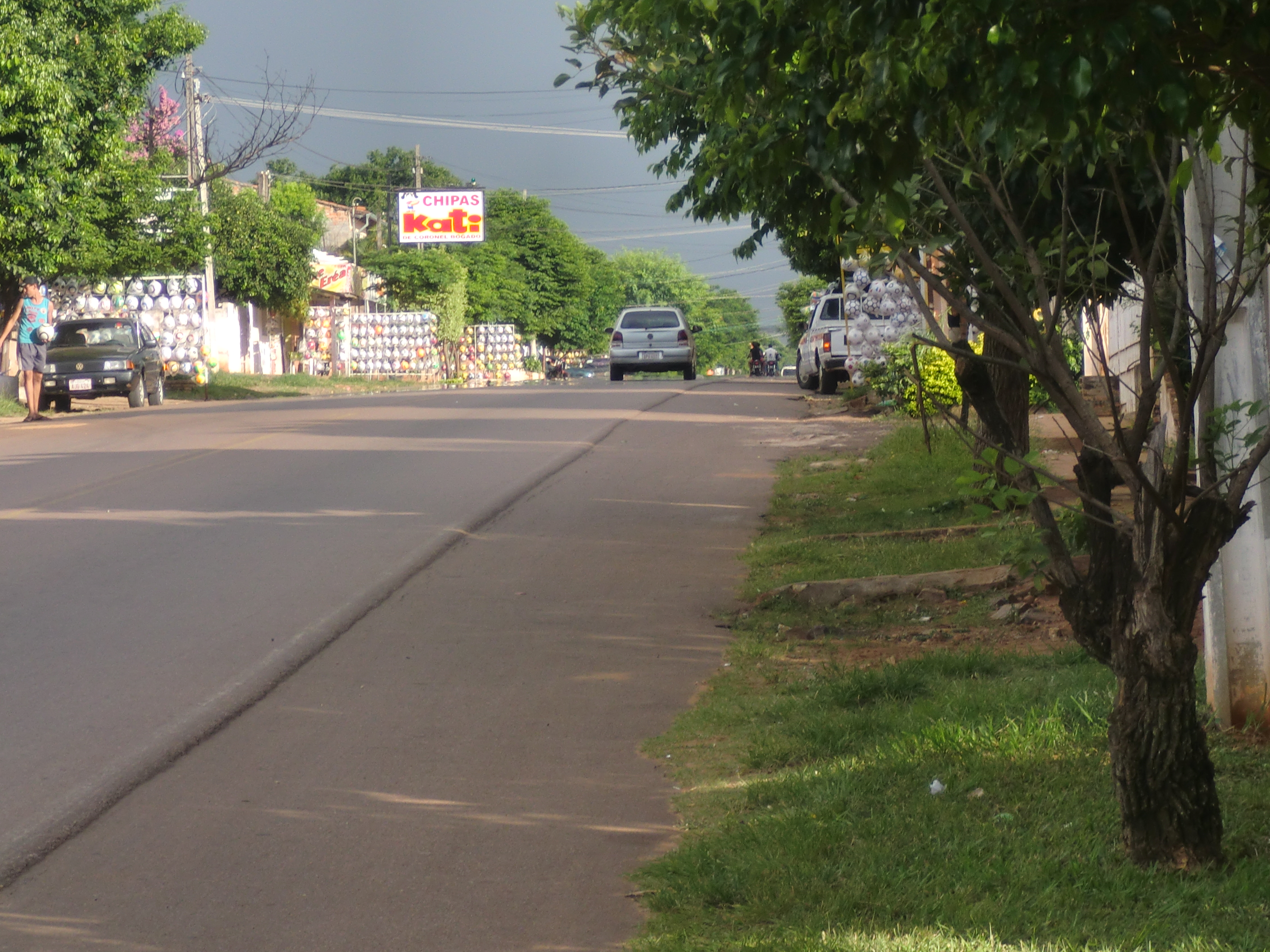 Soccer Balls in Quiindy City